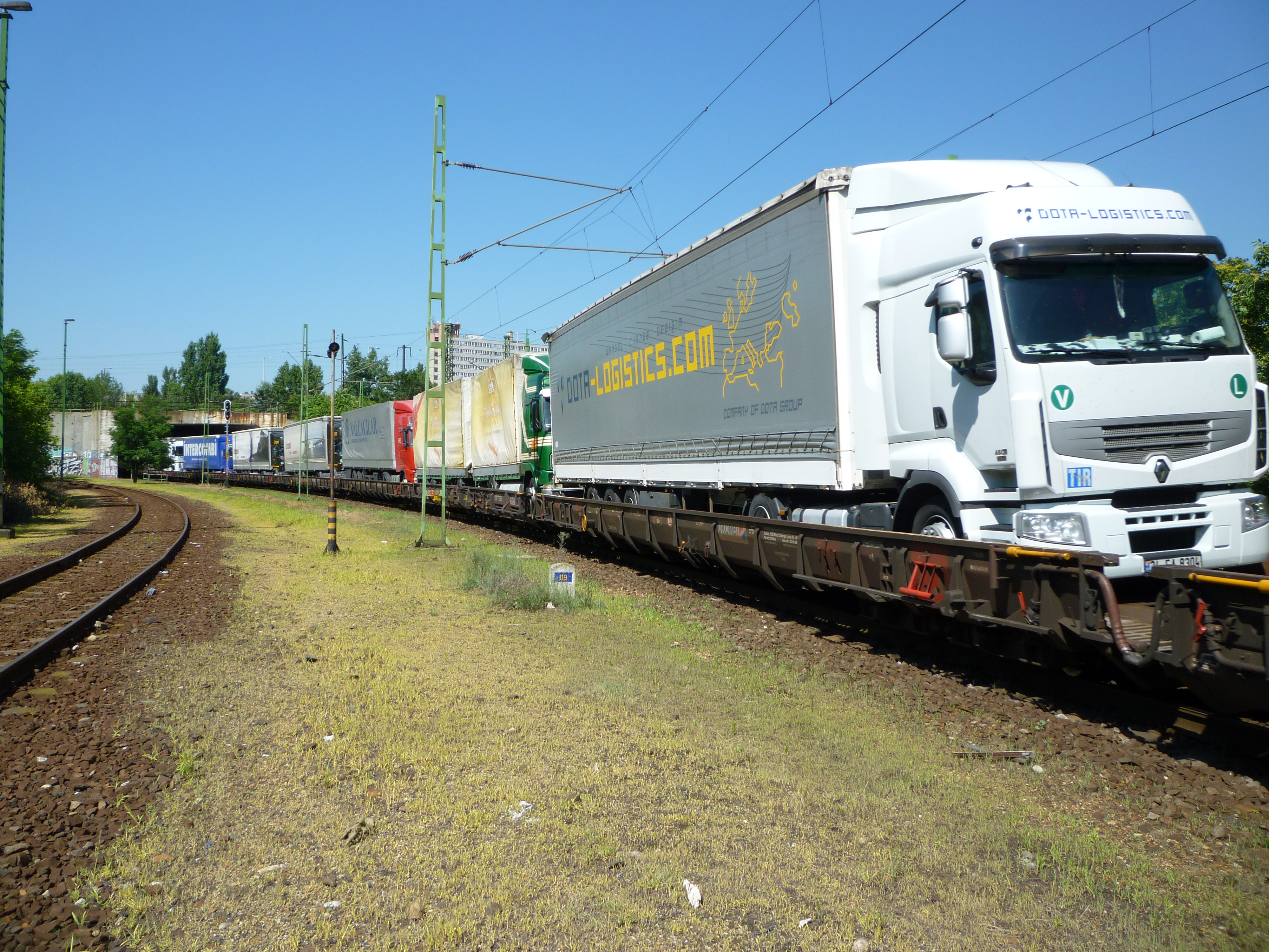 „Rollende Landstrasse“ train at Budapest Kelenföld railway station (Hungary).